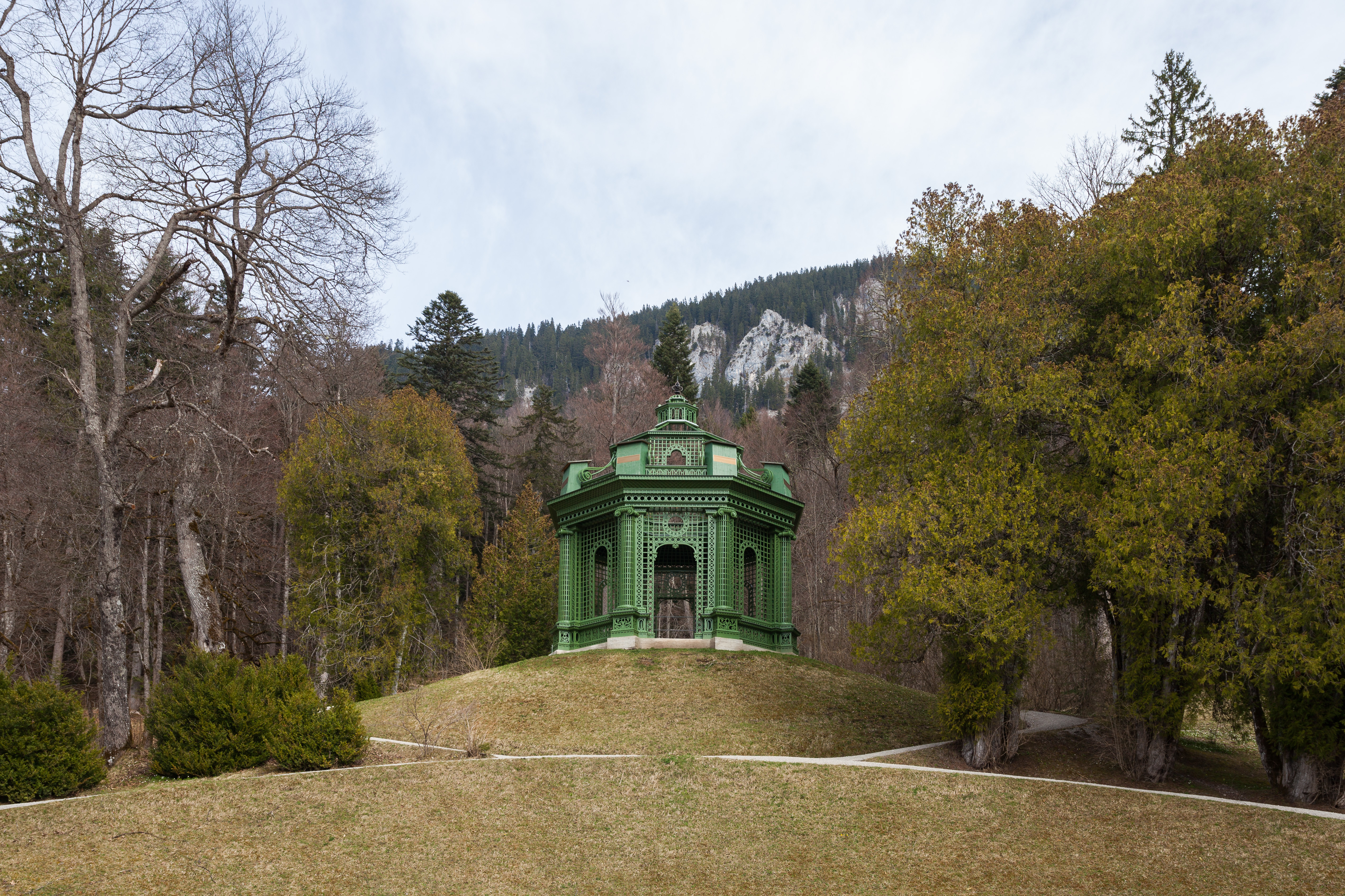 Music Pavilion of the Linderhof Palace, Bavaria, Germany